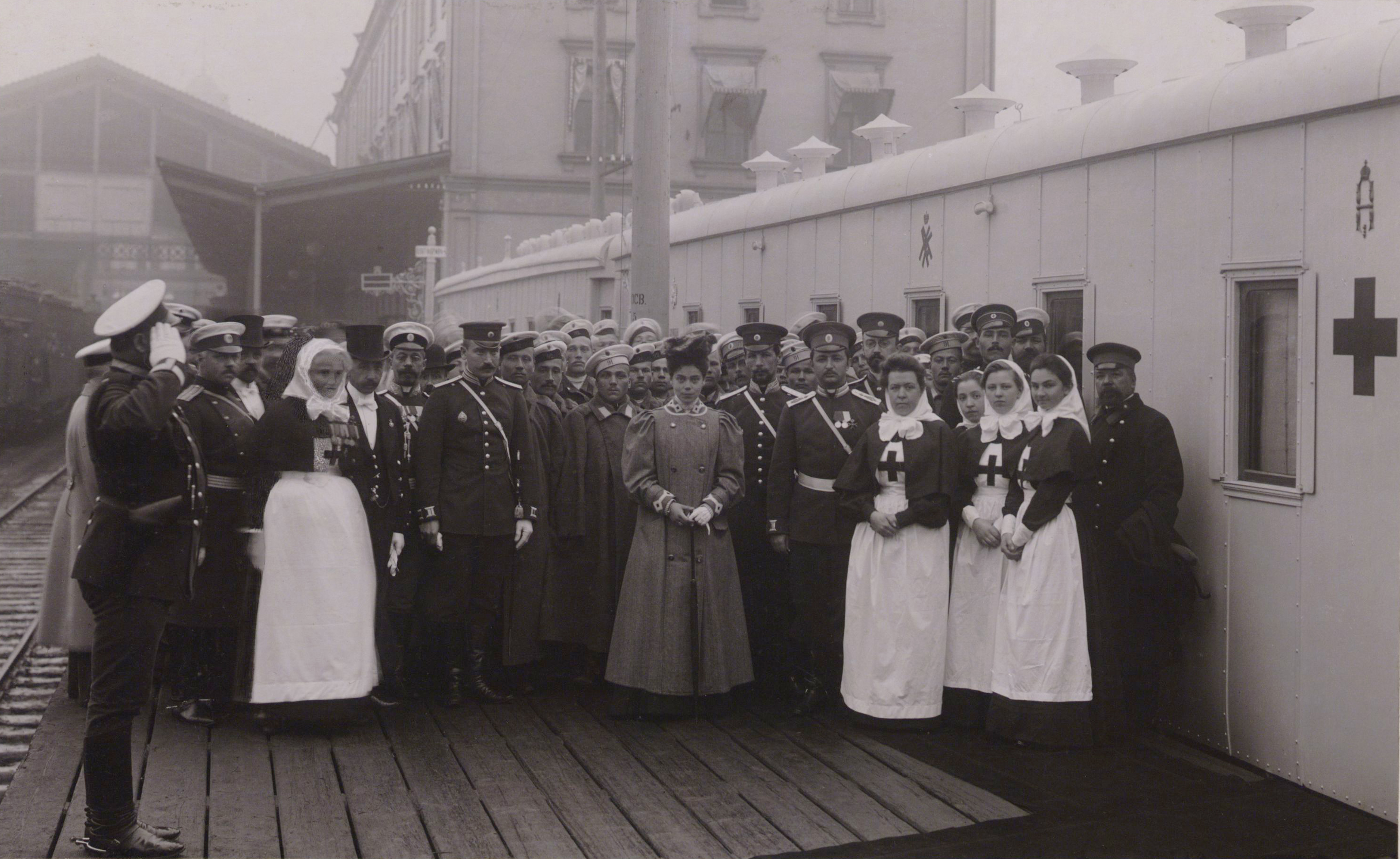 Grand Duchess Xenia Alexandrovna with the team of his military hospital train